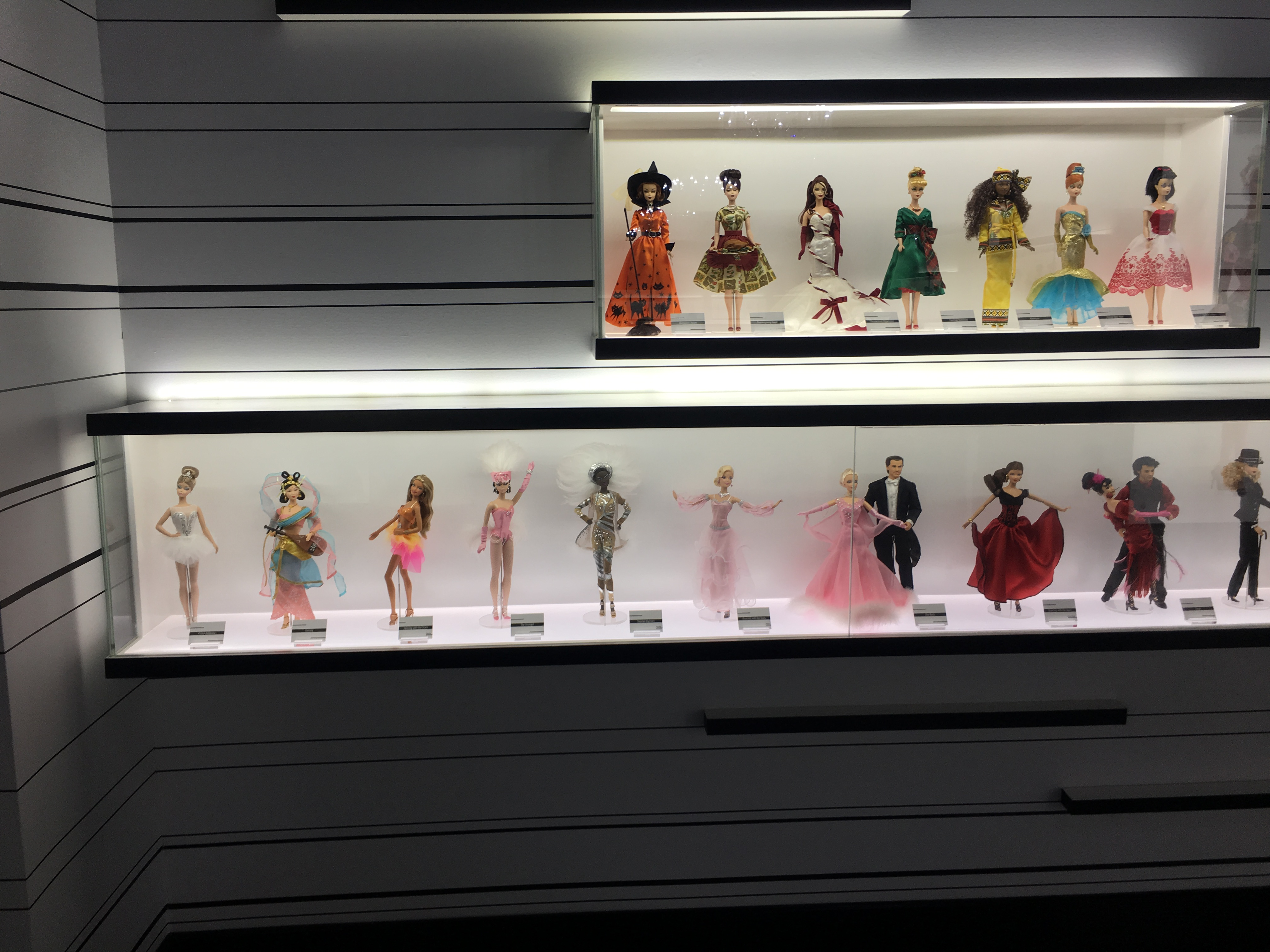 Barbie Doll Display at Barbie Expo Les Cours Mont-Royal